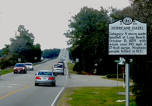 Historic Marker on NC133 looking north at the Barbee Bridge